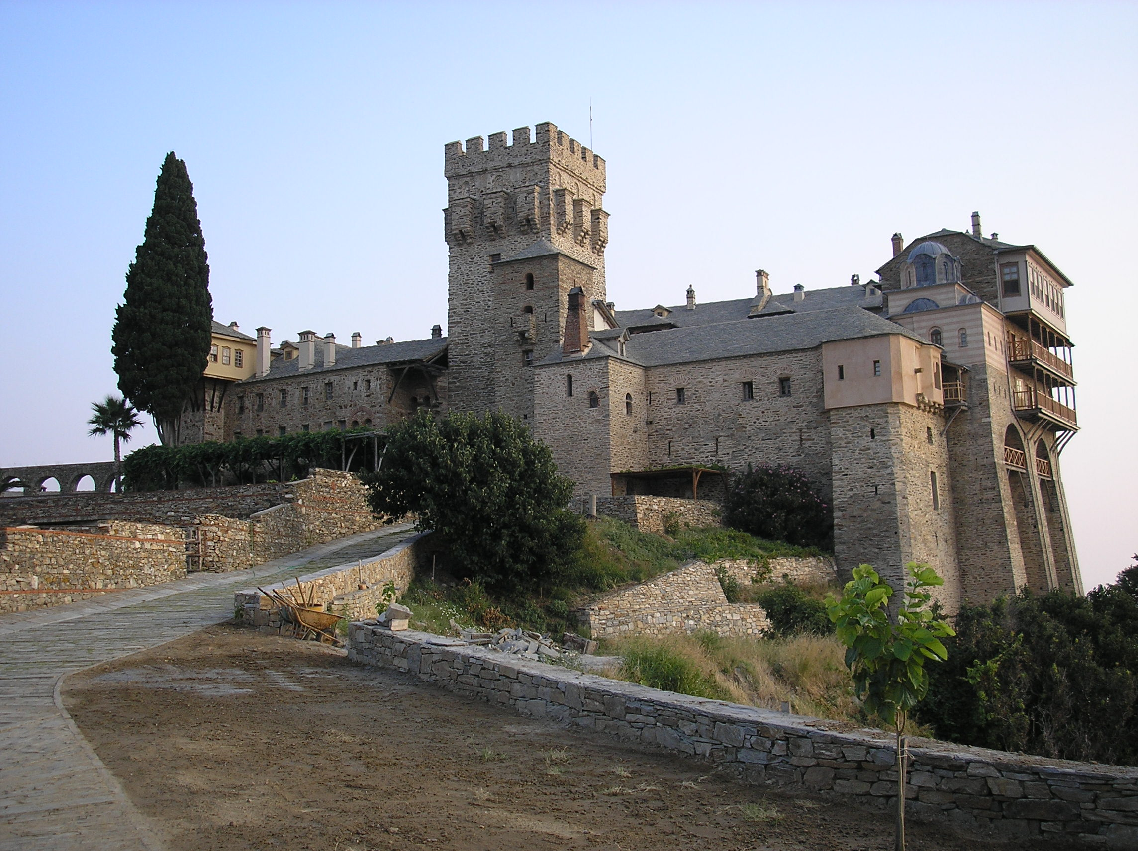 Stavronikita monastery at Mount Athos, Greece as seen from the South-East. Photo taken by Thodoris Lakiotis, August 2006. Posted under GFDL with his permission.